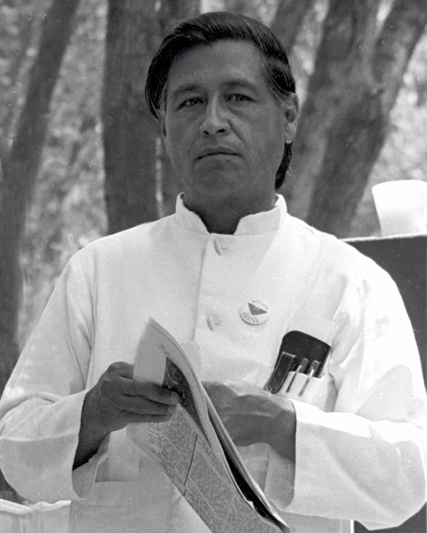 César Chávez — speaking at the Delano UFW−United Farm Workers rally in Delano, California, June 1972. Duncan West was there representing the Teamsters who were supporiting the UFW and condeming their IBT leadership for working as thugs against a fellow union. Duncan and his wife Mary were the branch organizers of the LA IS. César Chávez, cofounder of UFW; b. 31 March 1927, d. 23 April 1993. Chavacano de Zamboanga: César Chávez at a United Farmworkers rally 1974.